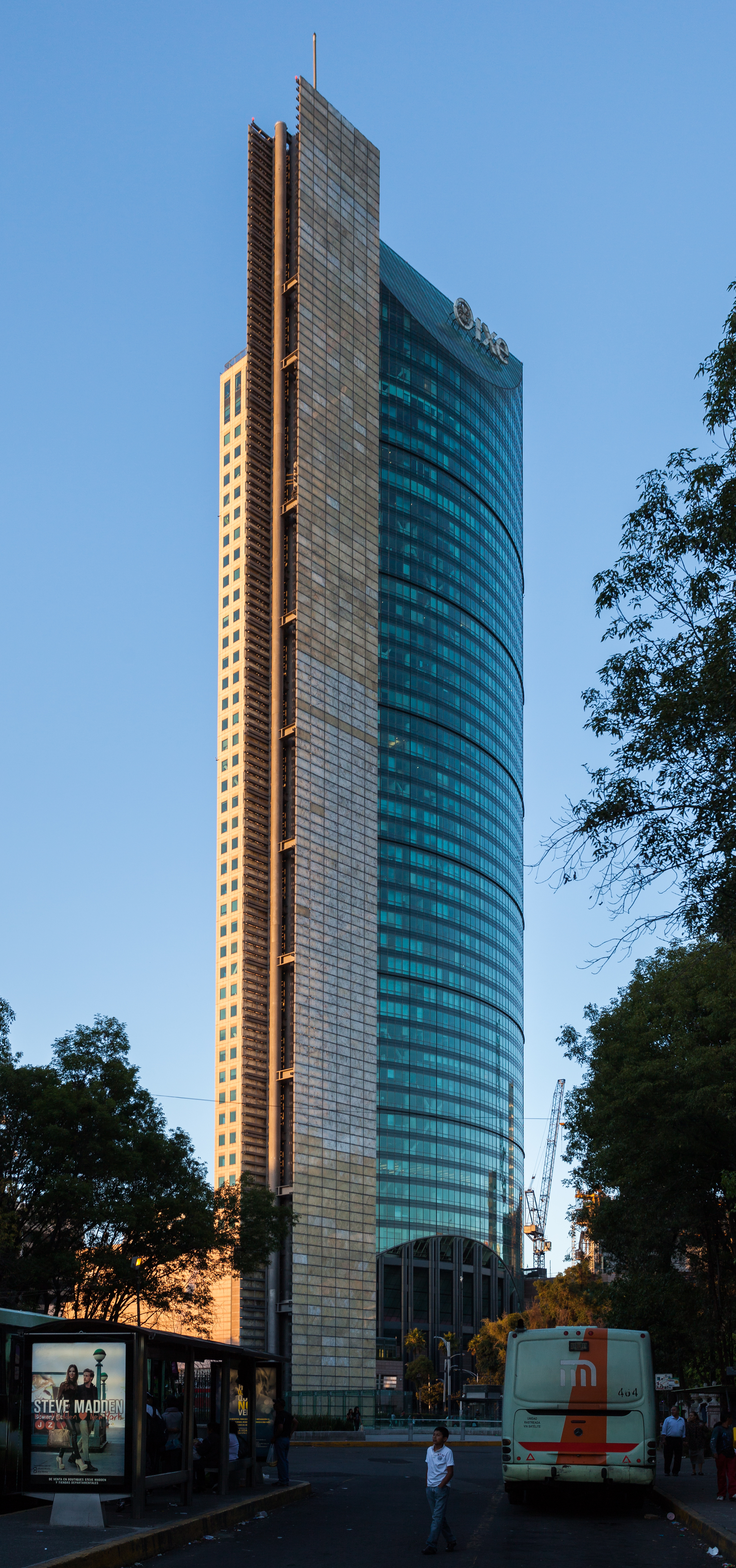 Estela de Luz and Torre Mayor, Mexico City, Mexico